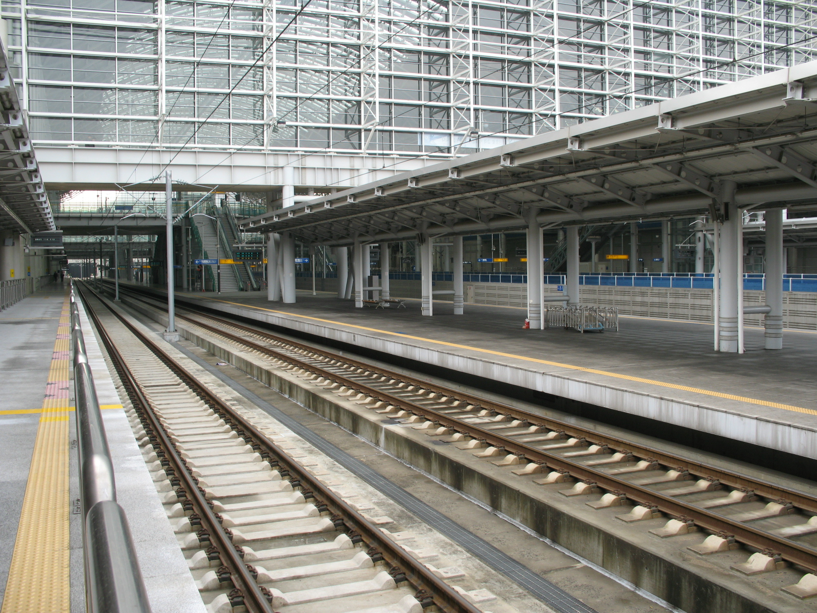 The platform of KTX Gwangmyeong Station.